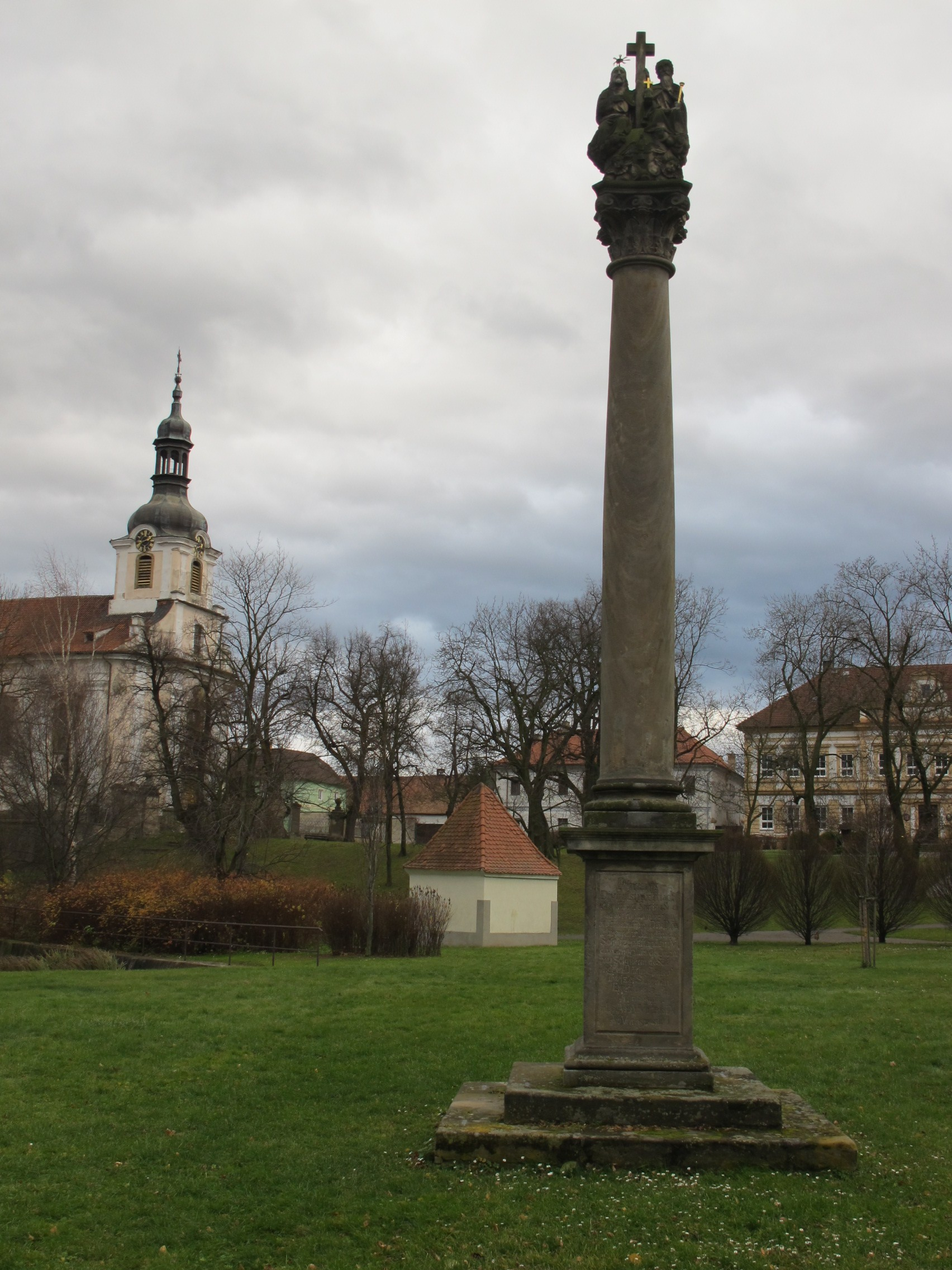 The column of Holy Trinity in Cítoliby (Czech Republic)